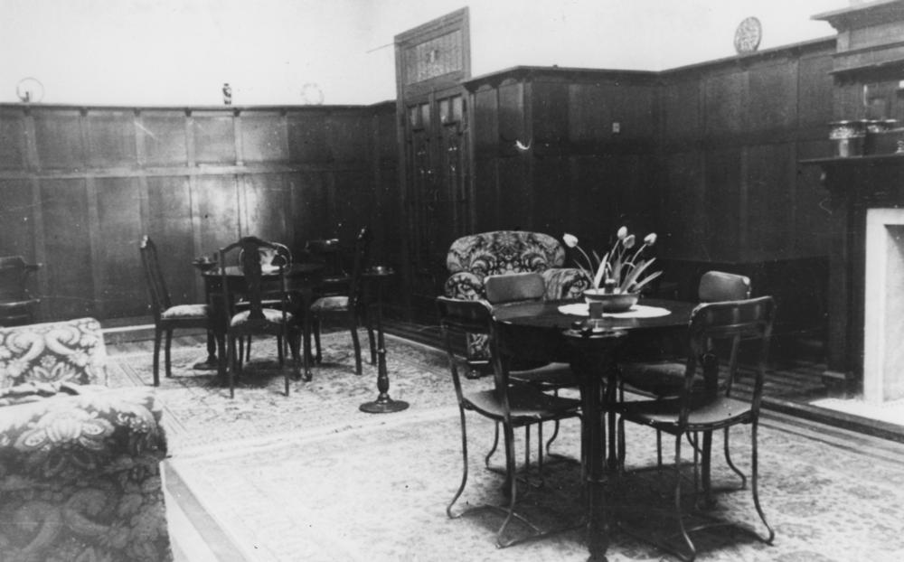 Sitting room in the Corones Hotel, Charleville, ca. 1930. The Corones Hotel was built for Harry Corones on the site of the old Norman Hotel. It has a frontage of 210 feet on Wills Street and takes up almost the whole space between Edward and Galatea Streets. It took five years from the time the foundations were laid until completion in 1929. It cost in the vicinity of 50,000 pounds. The hotel had some of the best fittings and features of any hotel of the time, with en-suite bathrooms, embossed ceilings, wood paneling and stained glass windows. It also featured a jazz hall. (Description supplied with photograph).